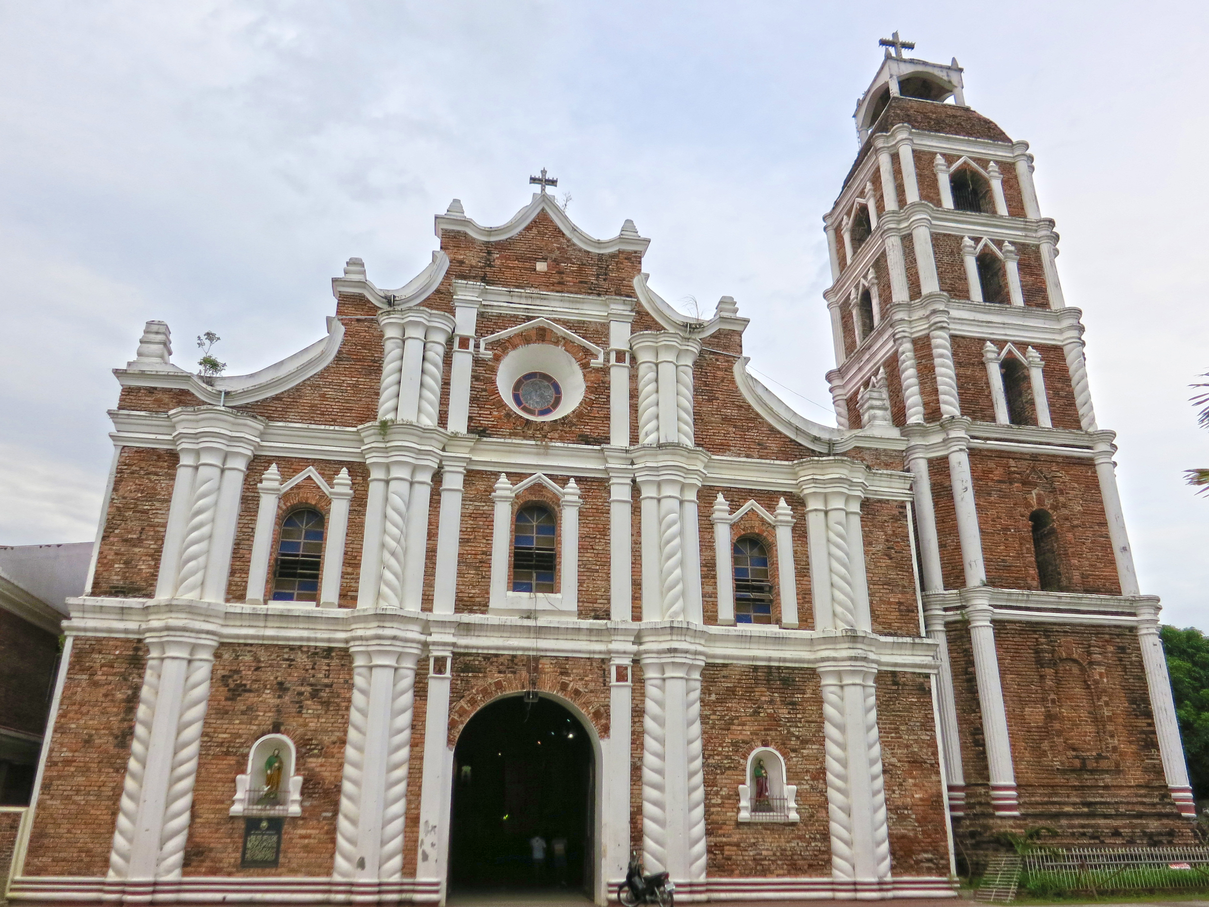 Tuguegarao Cathedral